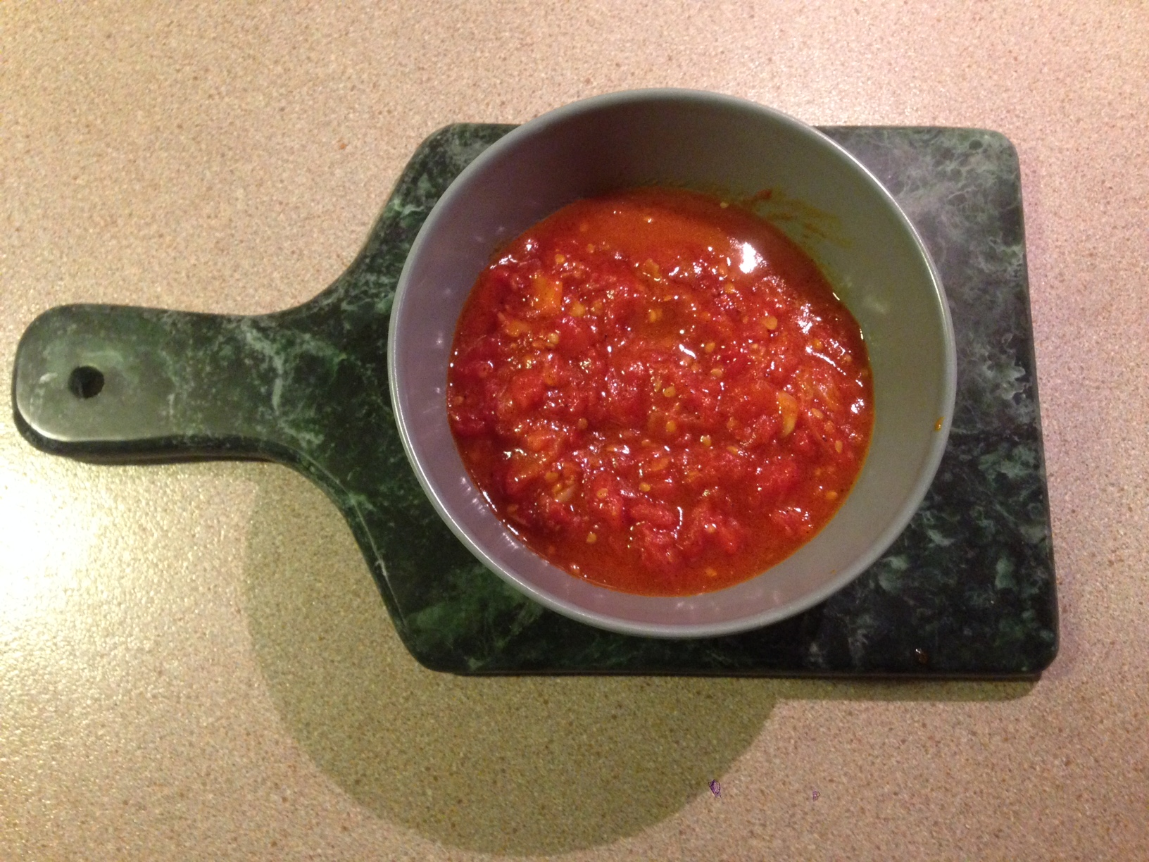 A friend made this delicious pasta sauce and accepted my offer to share it here.